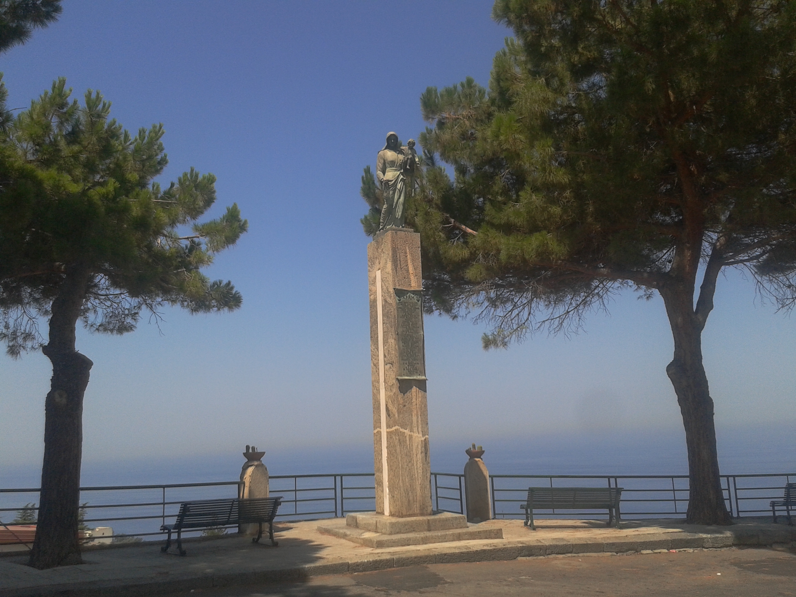 Obelisk dedicated to Our Lady of Mount Carmel and placed in the square of Palmi. The unveiling of the monument took place on 8 May 1983 to coincide with the second anniversary of the earthquake of 1783. The obelisk is formed by a high granite stele, on top of which there is placed a bronze statue of the Our Lady of Mount Carmel. The work was carried out by the company Attilio De Luca of Naples and the stele was squared by local art teachers, led by Antonio Romeo.